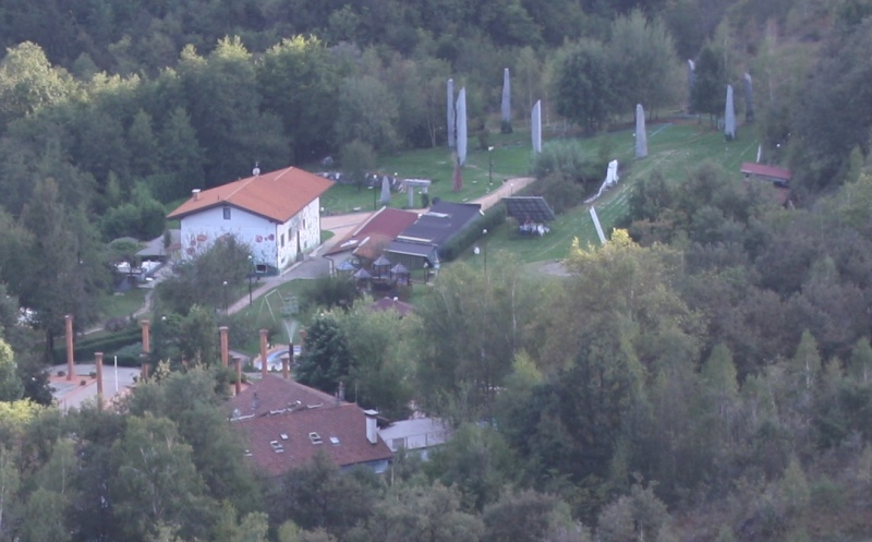 Main part of the Federation of Damanhur (Baldissero Canavese. Italy)